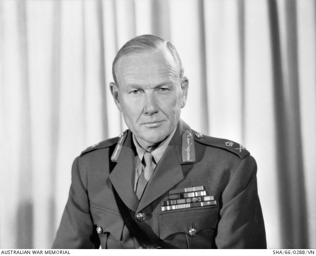 Portrait of Major General Thomas Daly.